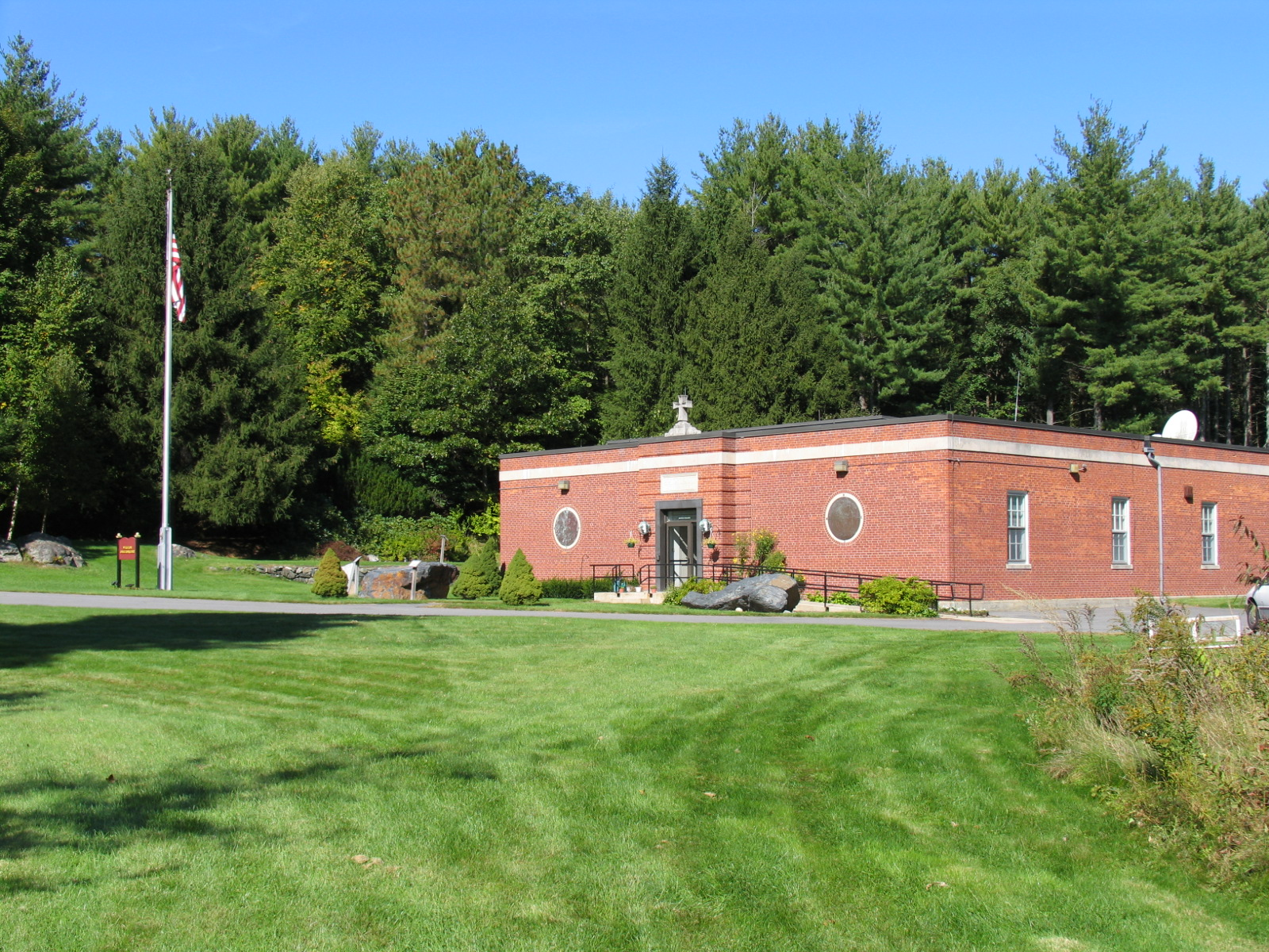 This is a front view of the Weston Observatory (Boston College). A research center for the Department of Earth and Environmental Sciences of Boston College. It is located in Weston, MA.